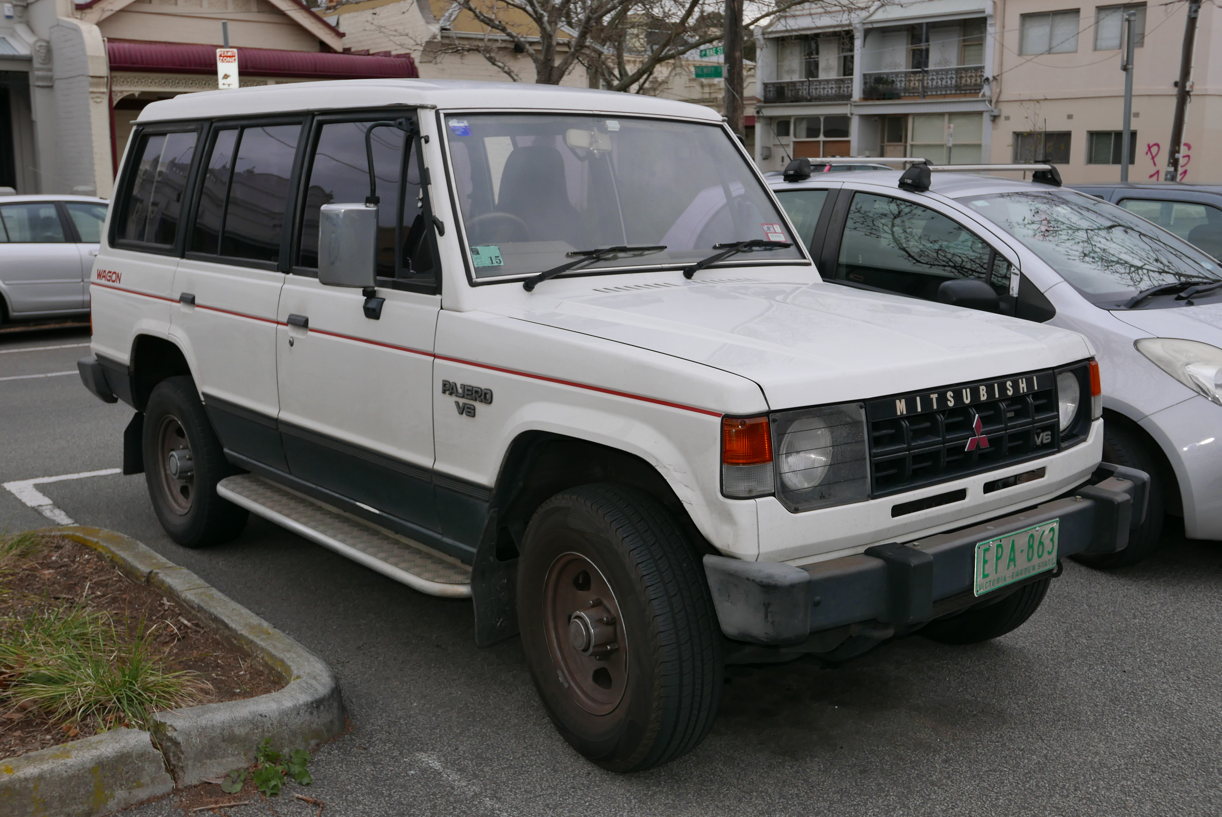 1991 Mitsubishi Pajero (NG) Superwagon V6 wagon. Photographed in Fitzroy North, Victoria, Australia. Vehicle registration enquiry results Jurisdiction Victoria Registration EPA863 Chassis code JMFNG6Z45LJ006879 Engine code G67NK4135 Compliance date 1991-07 Year of manufacture 1991